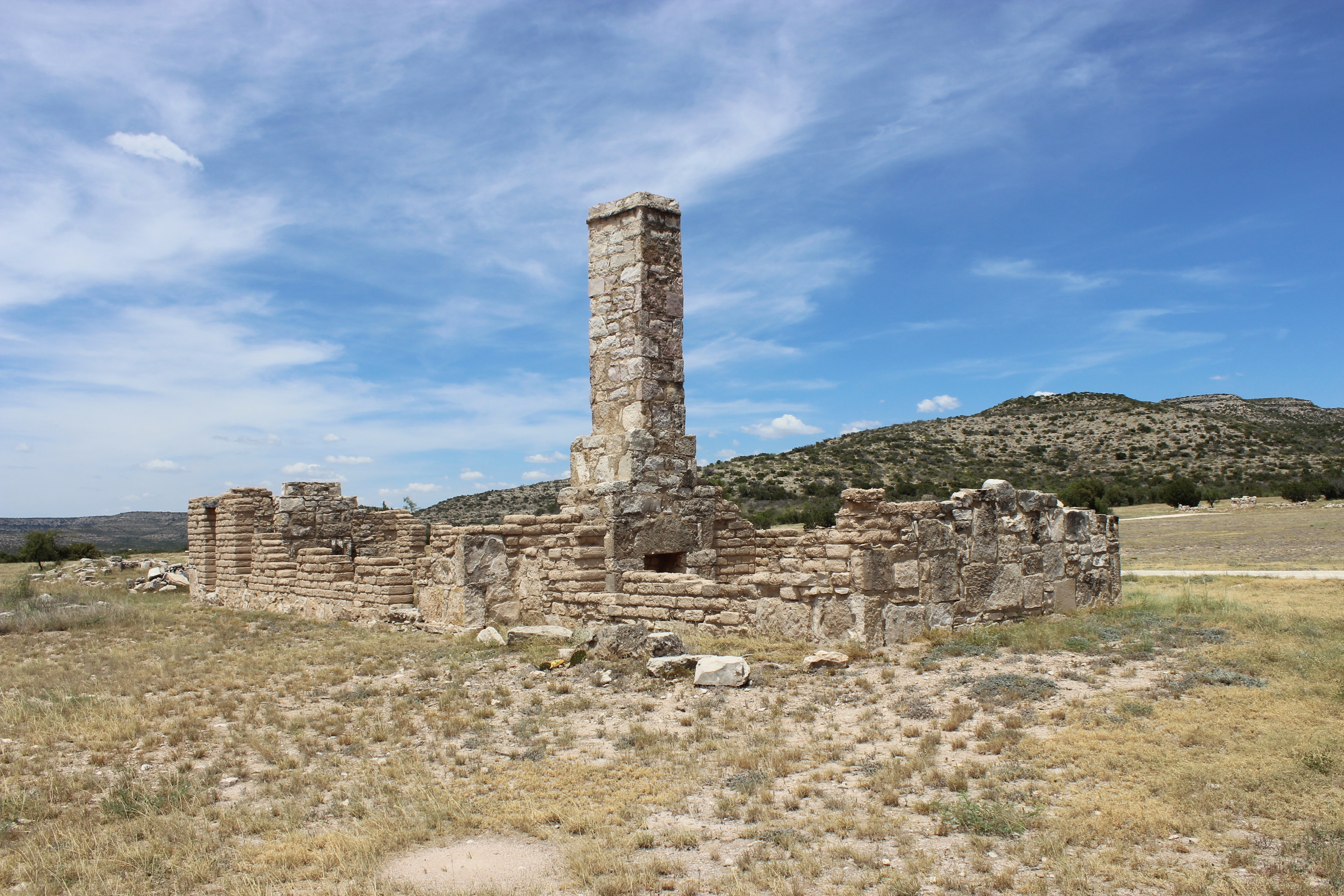 Ruins of the adobe and stone built Company K Enlisted Men's Barracks at Fort Lancaster State Park (c. 1857).